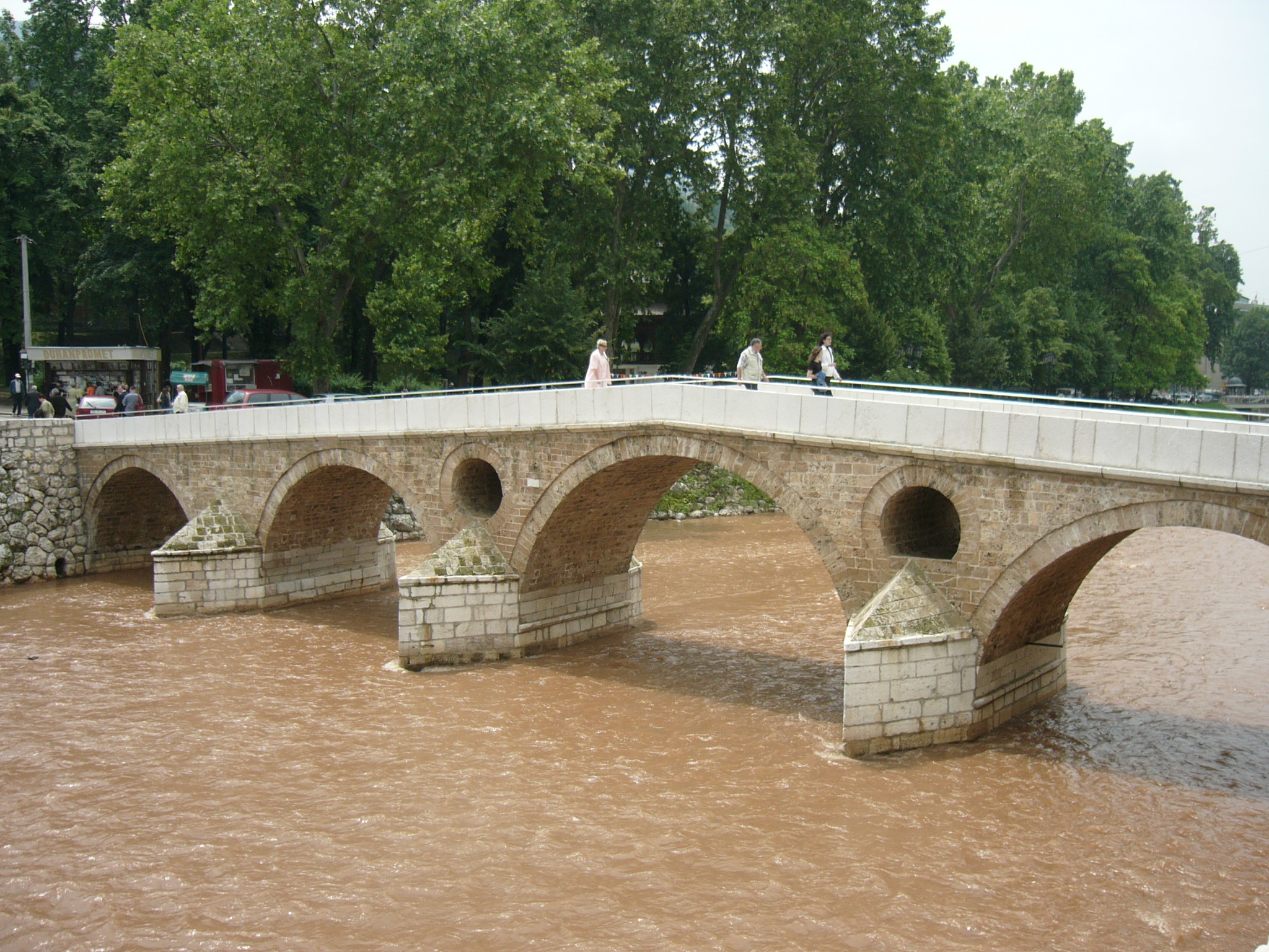 Lain bridge in Sarajevo